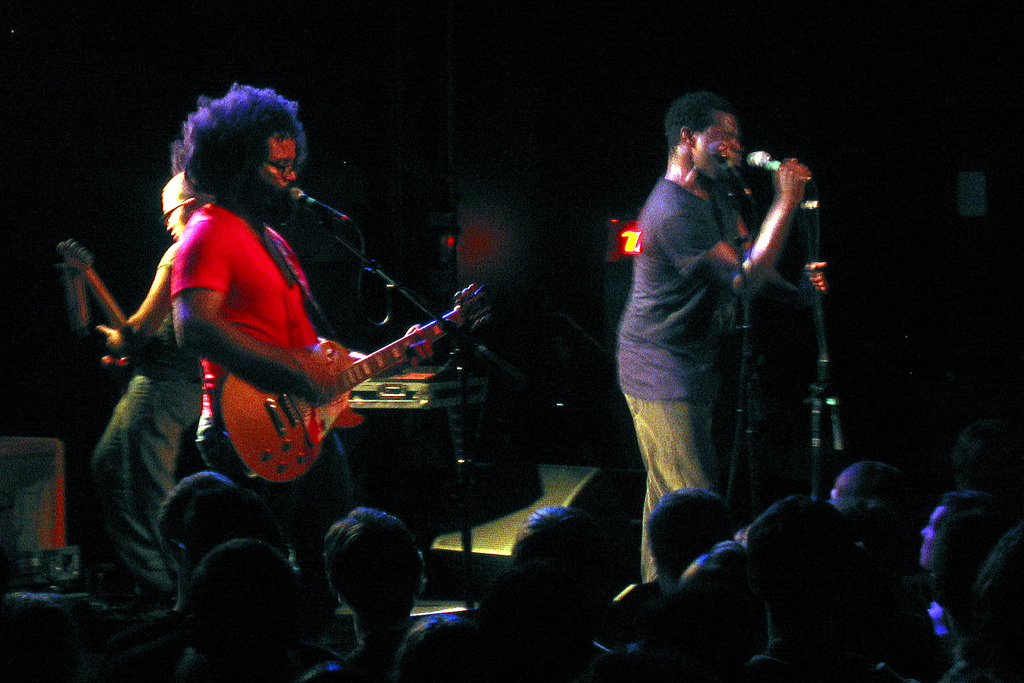 TV on the Radio, a New York City avant-garde indie-rock band formed in 2001.